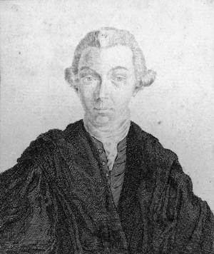 Antiquarian and Herald John Ives in an engraving by Peter Spendelowe Lamborn. It was first published in 1822–46 years after the death of Ives.